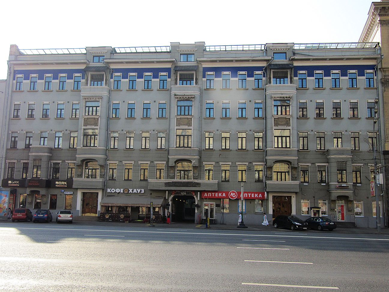 Bulgakov House in Moscow (Bolshaya Sadovaya Street, 10, ap. 50). View from the Garden Ring Street. Mikhail Bulgakov's novel "Master and Margarita" was written here.